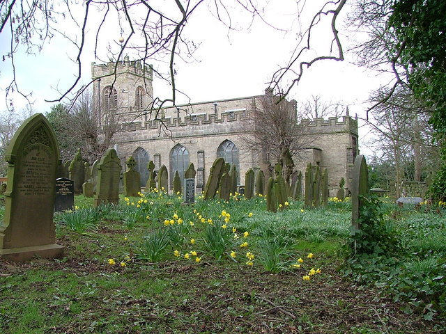 Photograph